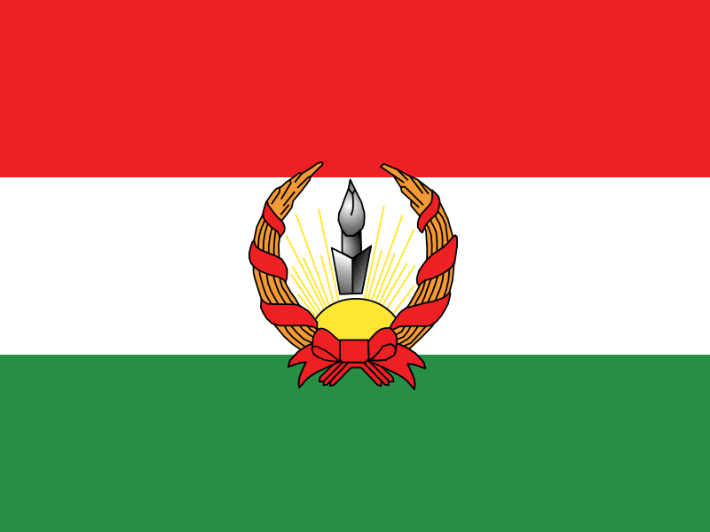 Flag of Mahabad, used from 1946 to 1947.